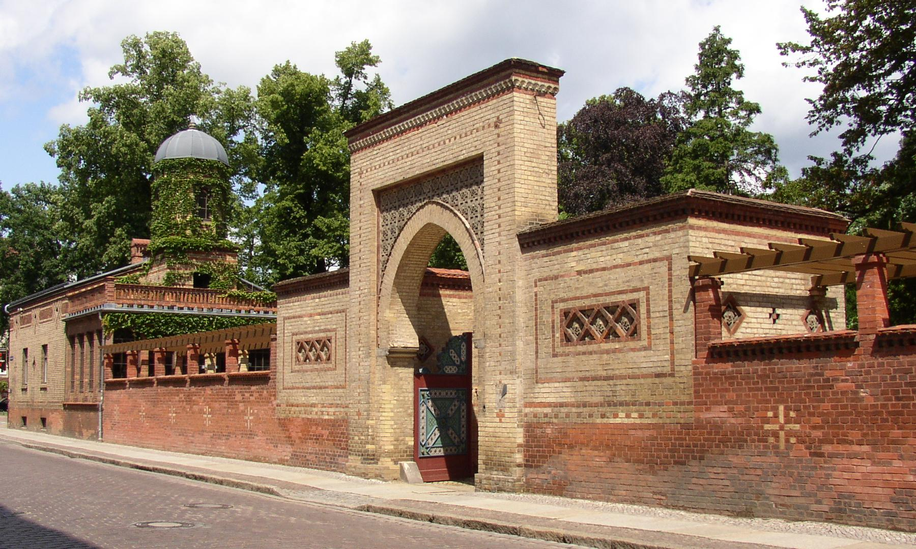 Entrance of the temple garden in Neuruppin in Brandenburg, Germany